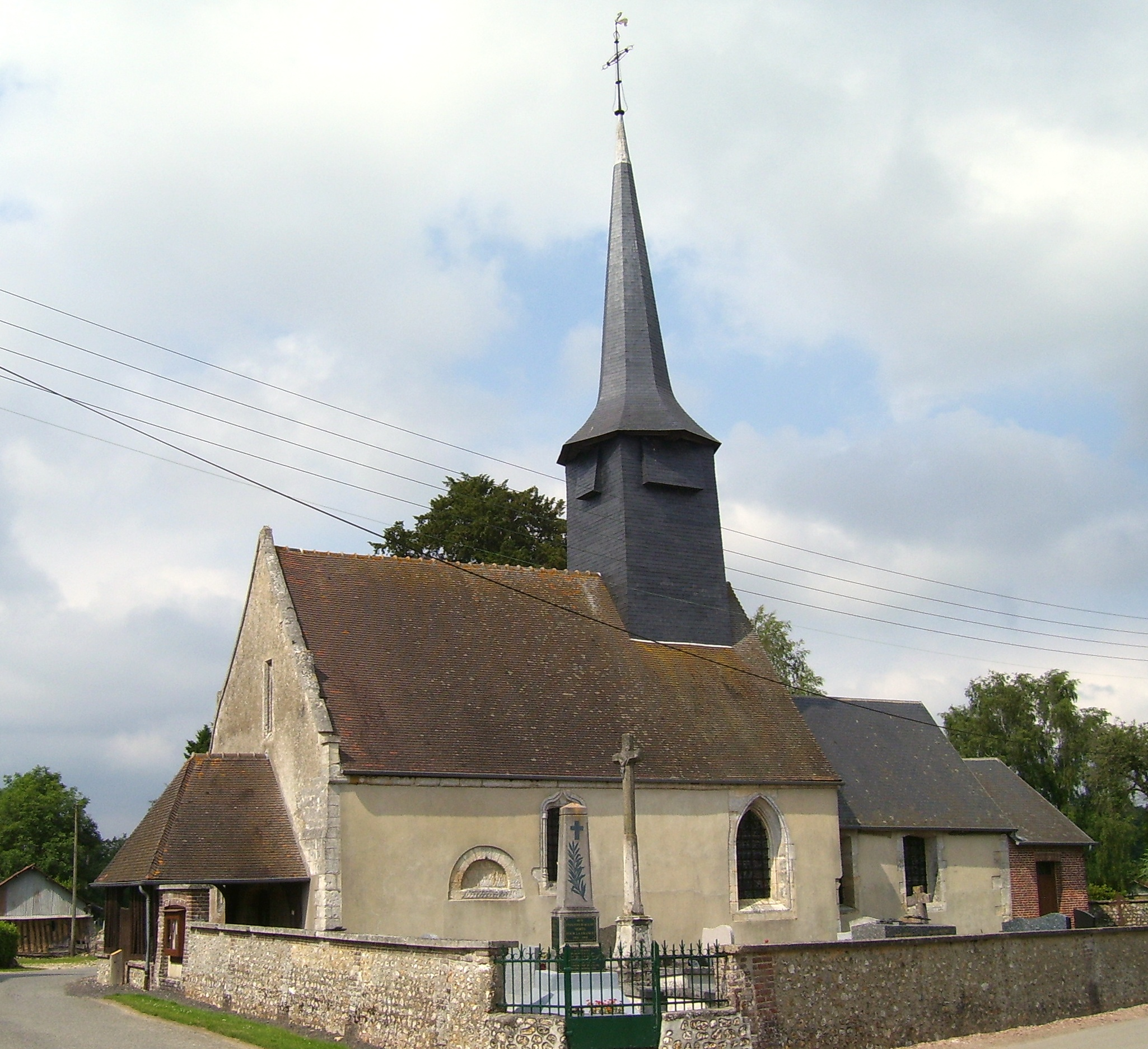 Church Saint-Rémi (12th century) in Aclou (Eure), France.